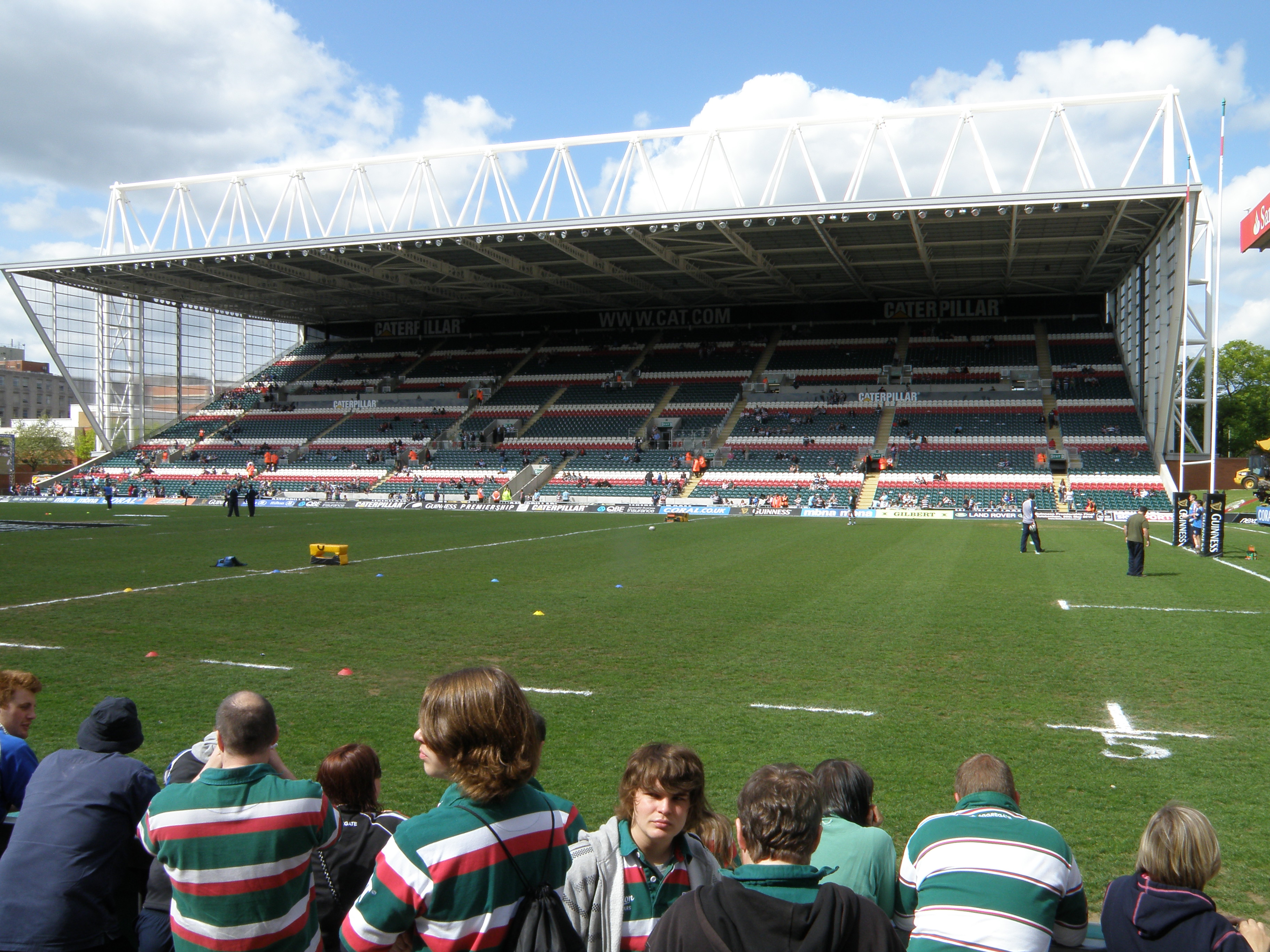 Caterpillar Stand at Welford Road. The smart new stand at Welford road prior to the semi final kick-off against Bath in the Guinness premiership play off.